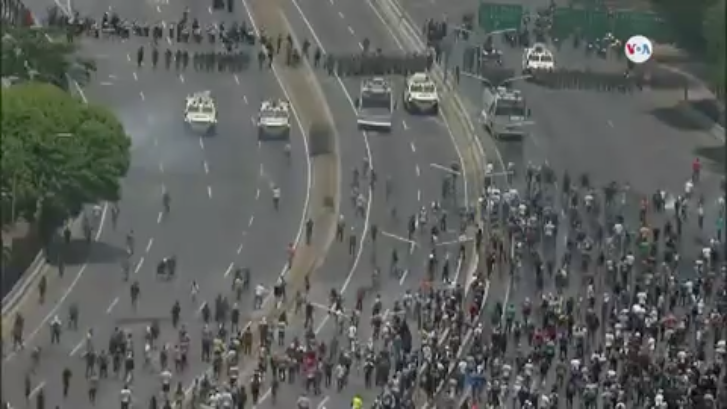 Clashes between Guaidó supporters and pro-Maduro forces on 30 April 2019.